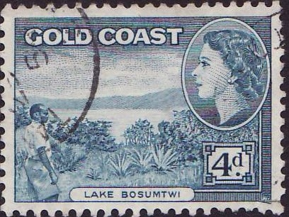 Gold Coast 4 penny stamp 1950s, Lake Bosumtwi, Ashanti Region